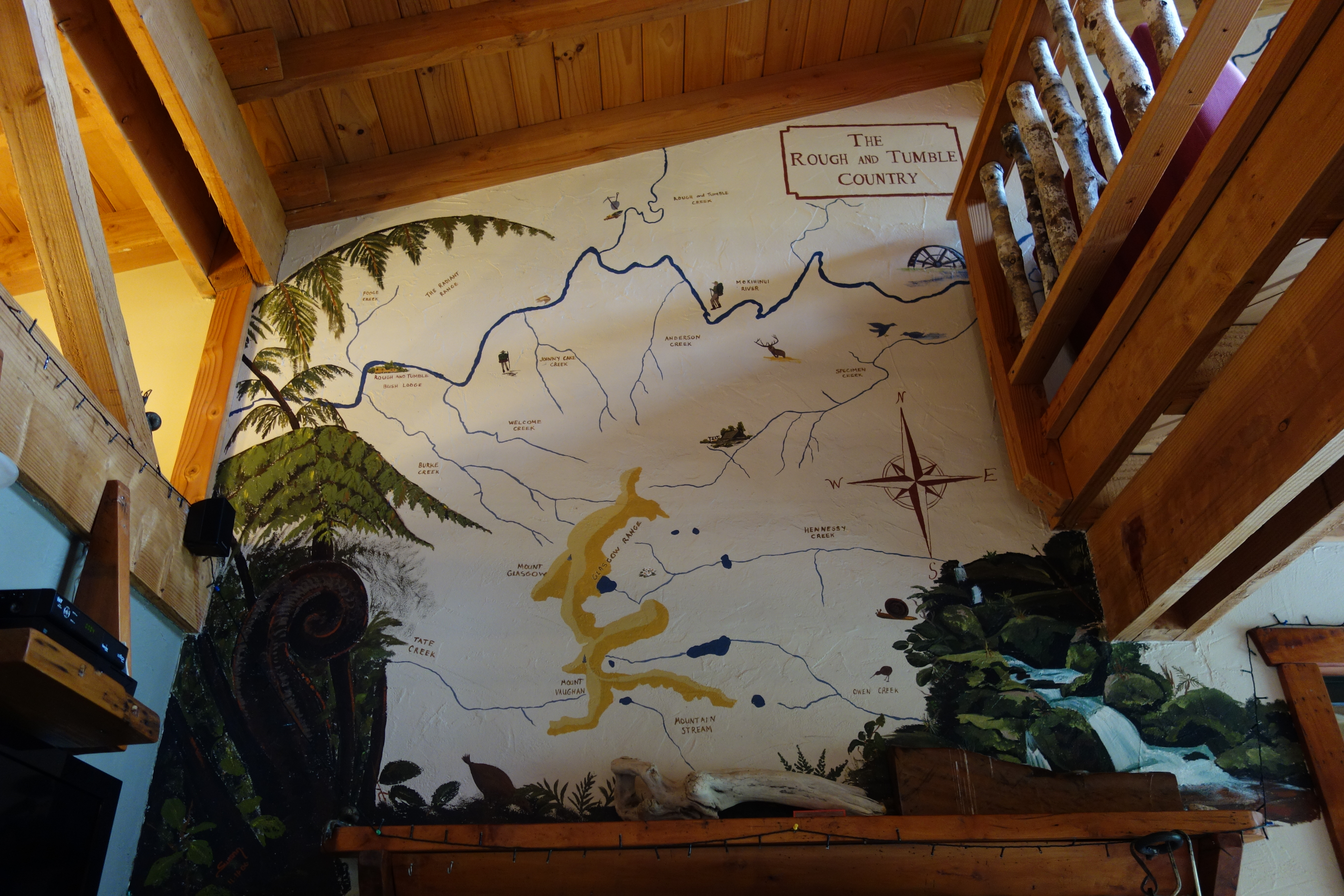 Rough & Tumble Bush Lodge: the lodge at the northern end of the Old Ghost Road with a painting of the Mokihinui catchment